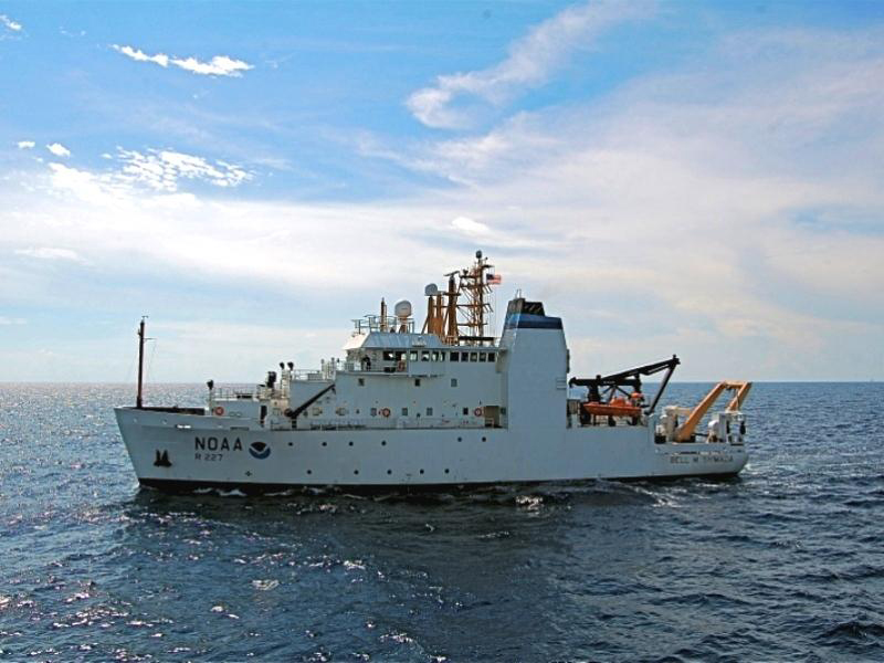 NOAA Ship Bell M. Shimada (R 227) underway. Information about NOAA R 227 Bell M. Shimada may be found at IMO 9349069.A ship can change name and flag state through time, but the IMO number remains the same through the hull's entire lifetime. As a result, it can be useful to identify a ship by using the IMO number.